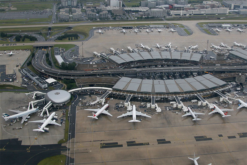 CDG Terminal 2. Bigger view